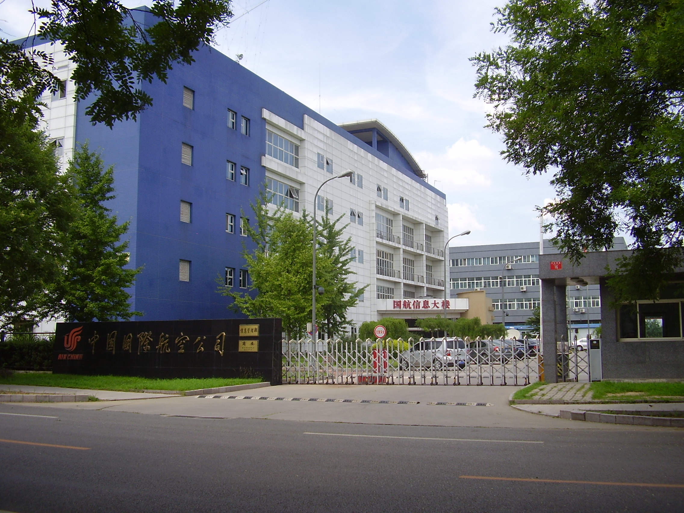 Air China Information Building (S: 国航信息大楼, T: 國航信息大樓, P: Guó Háng Xìnxī Dàlóu) and Okay Airways corporate headquarters - No. 16, A TianZhu Airport Industrial Zone TianZhu Middle Road (Tianzhu Zhonglu) ShunYi District, BEIJING, P.R.CHINA, 101312